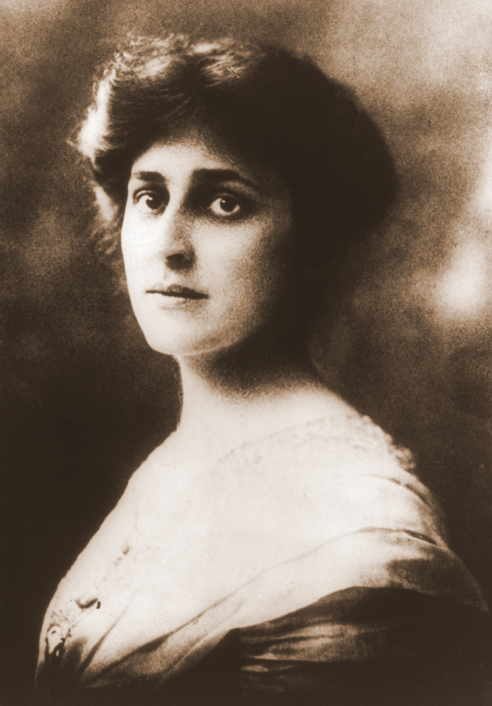 Crystal Eastman, 1881-1928, head-and-shoulders portrait, facing left. Note: Crystal Eastman, American feminist and socialist, ex-Bain News Service collection, digitized from the original negative by the Library of Congress. Digital ID: cph 3b09749 Source: digital file from b&w film copy neg. Reproduction Number: LC-USZ62-62094 (b&w film copy neg.) Repository: Library of Congress Prints and Photographs Division Washington, D.C. 20540 USA LoC: "RIGHTS INFORMATION: No known restrictions on publication." Additional digital editing by Tim Davenport, Wikipedia editor, no copyright claimed.